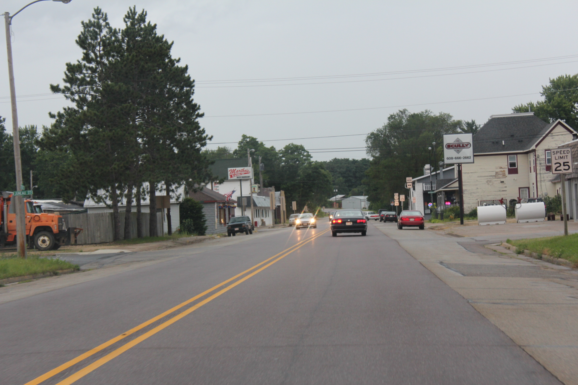 Looking northerly in downtown Lyndon Station, Wisconsin on U.S. Route 12 / Wisconsin Highway 16.